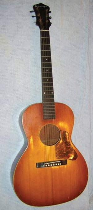 Vintage Kalamazoo model KG-14 guitar.